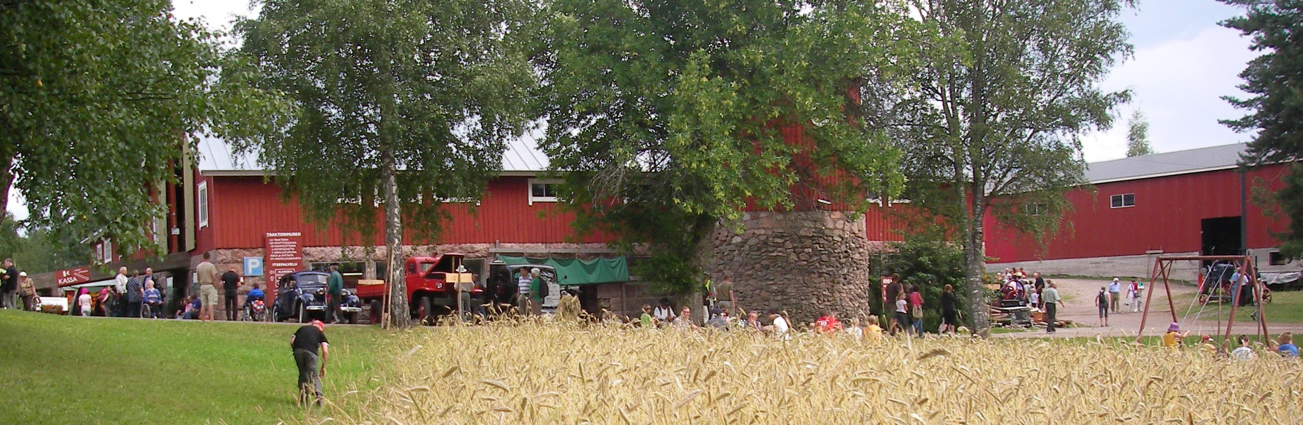 Kovela Tractor Museum on Tradition Days 2009, Nummi-Pusula, Finland